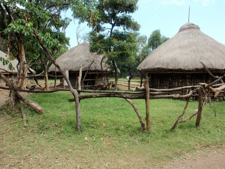 Luo's "ber gi dala" - Kisumu Museum (Kenya)